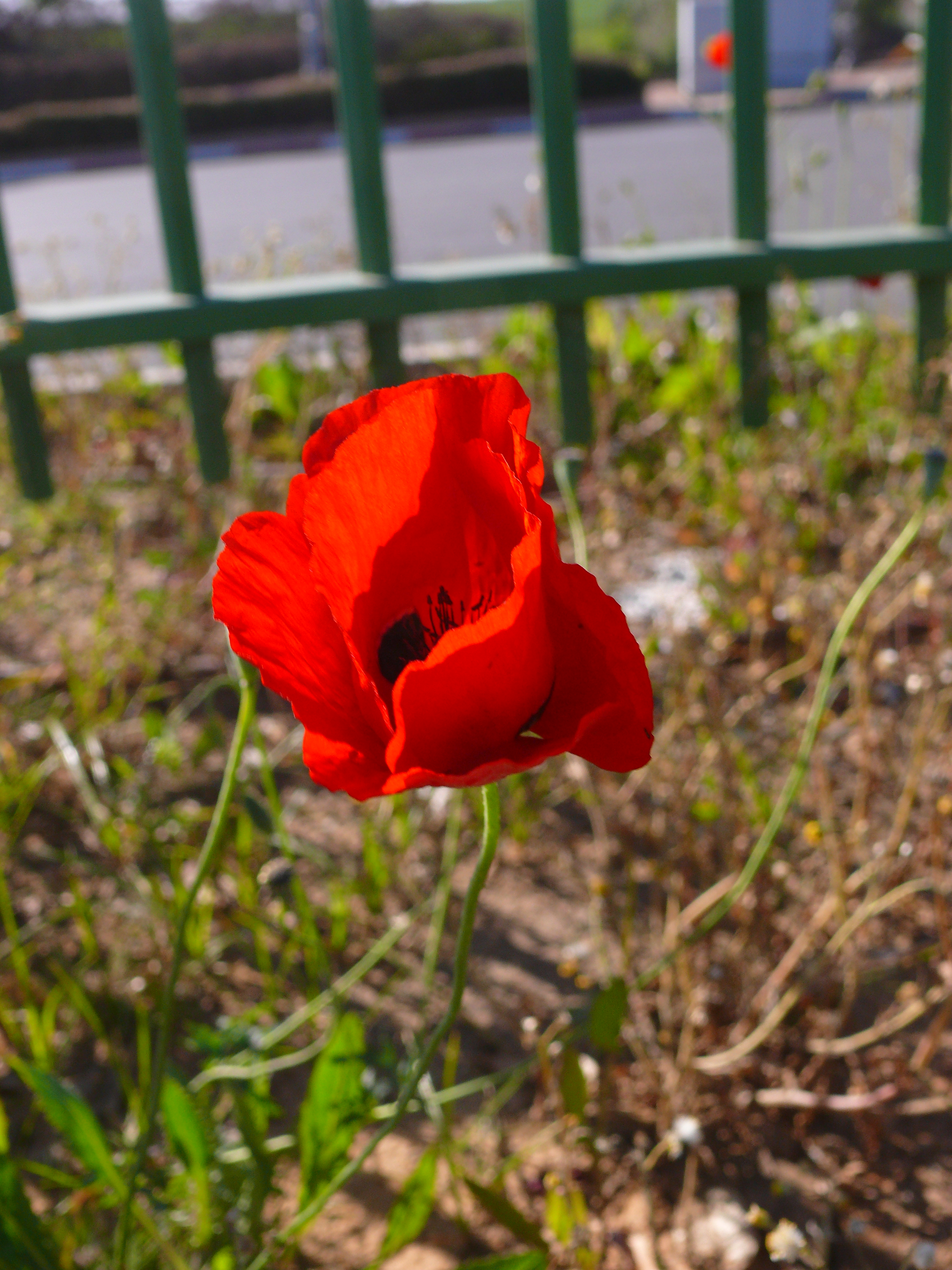 Papaver Subpiriforme